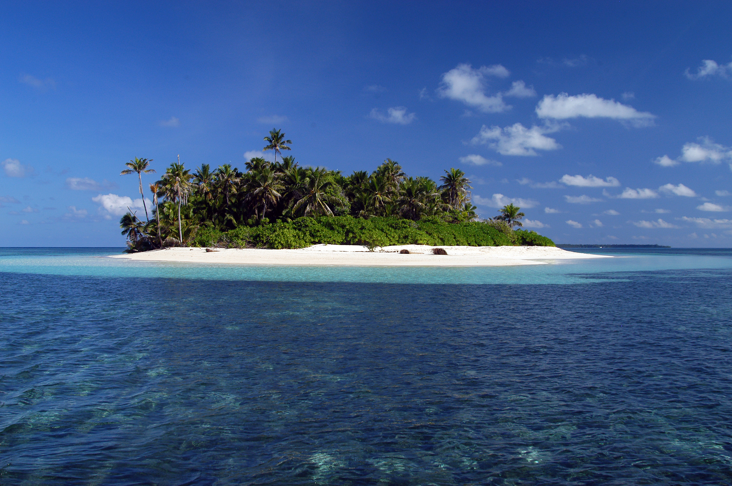 Bijoutier Island, Saint François Atoll, Outer Islands of the Seychelles